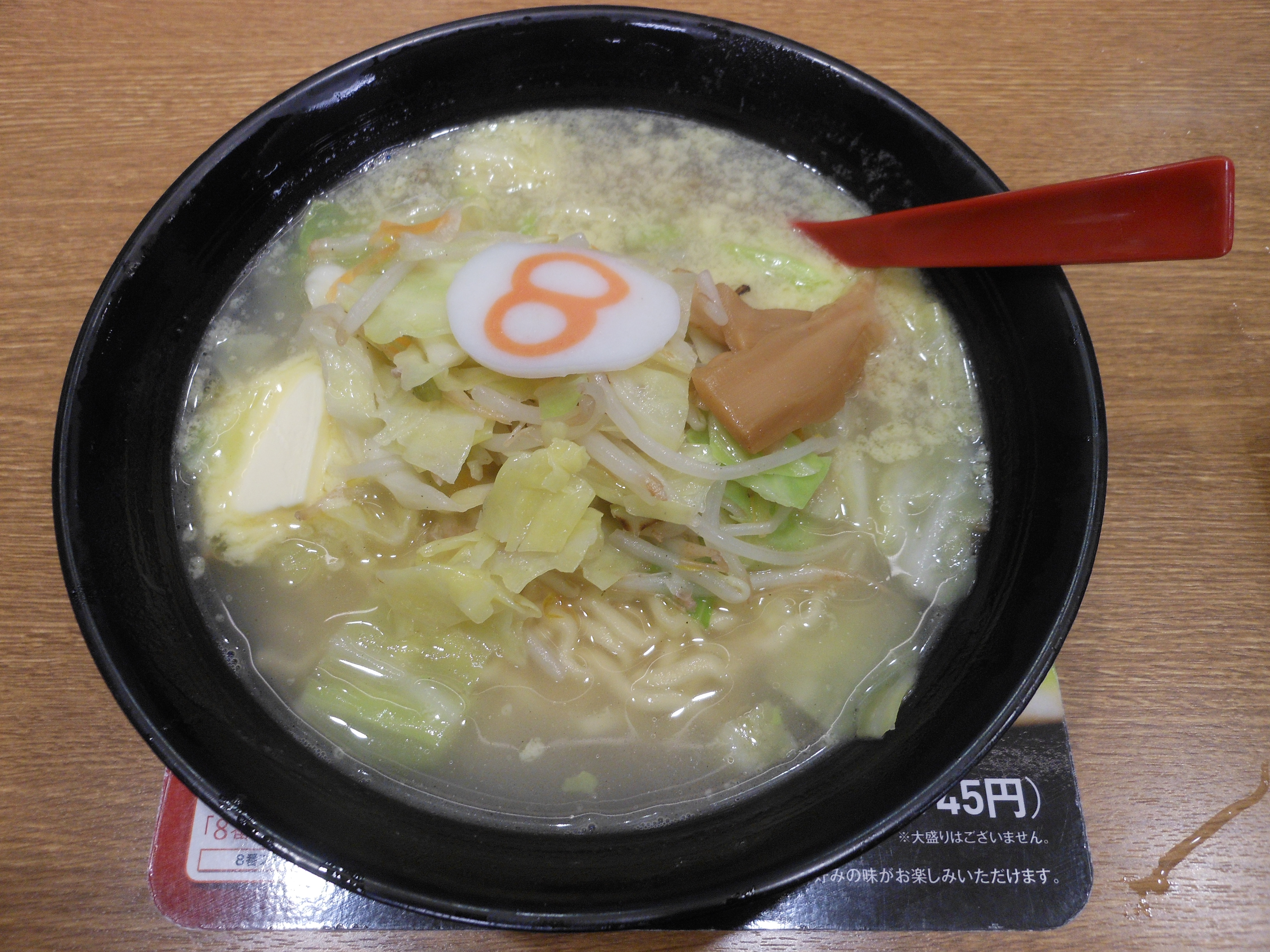 This is a boul of vegetable noodlebutter taste cooked by Hachiban Ramen Kanazawa station shop (In Kanazawa, Ishikawa, Japan).